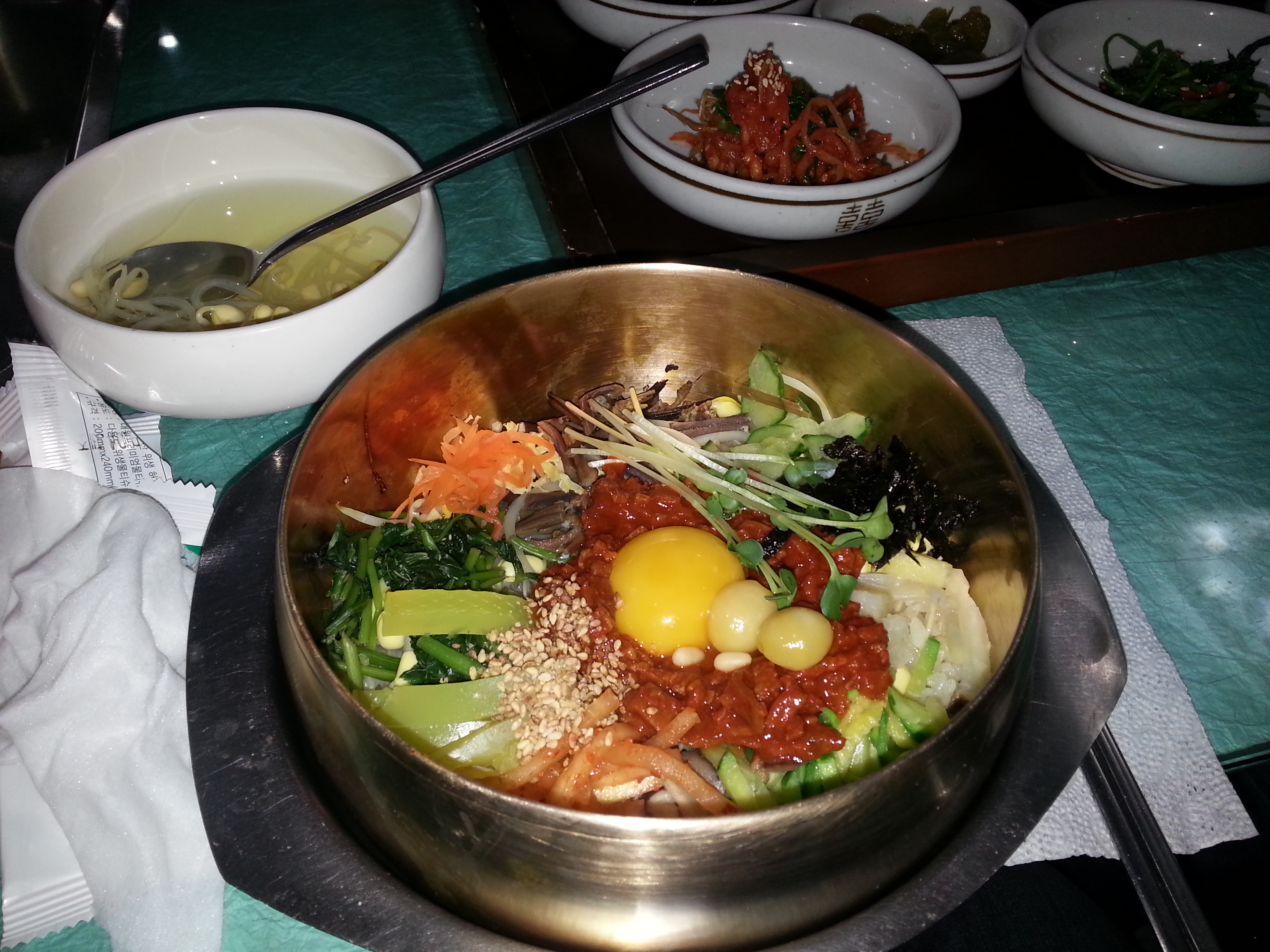 Jeonju Bibimpab